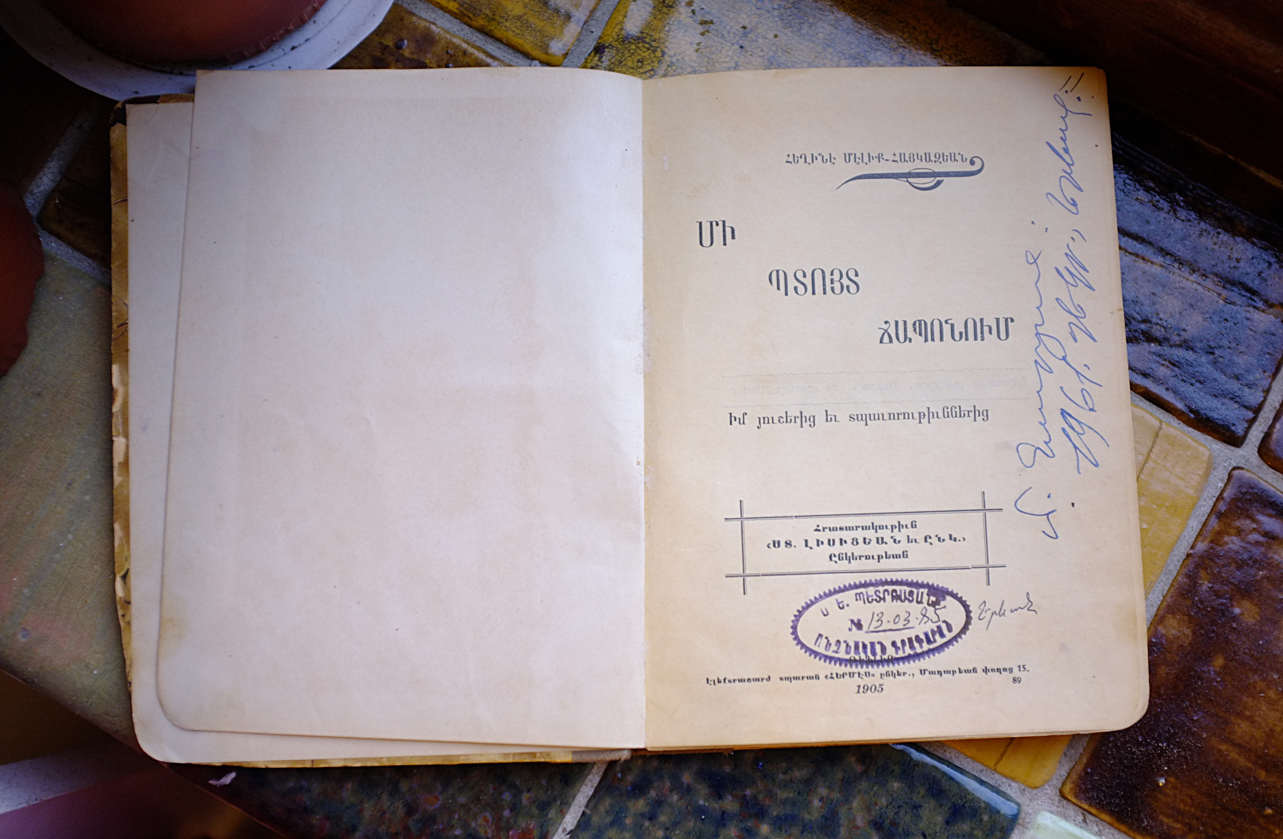 "Journey to Japan" a book by Heghine Melik-Shahnazarian, 1905